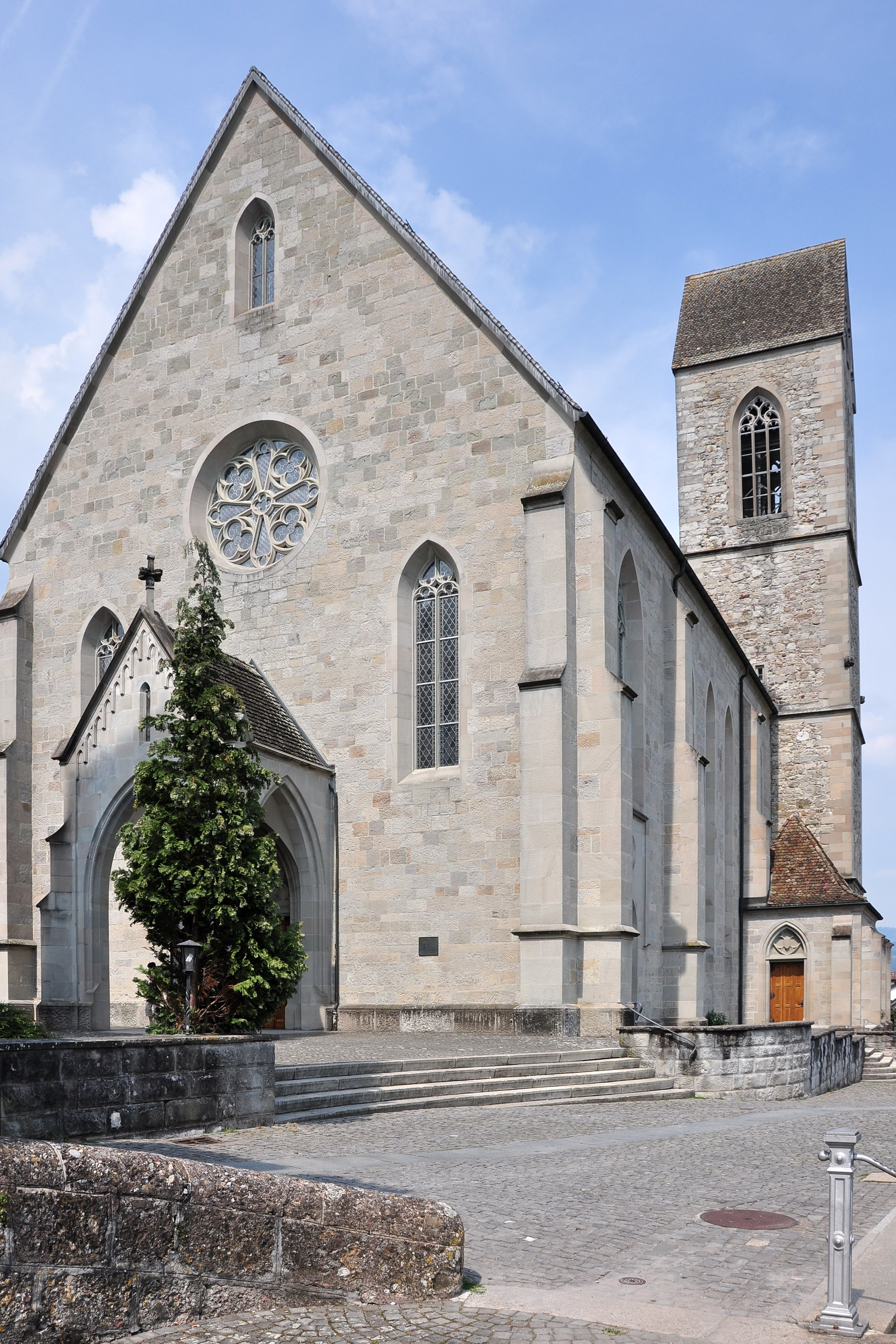 Rapperswil (SG) : Stadtpfarrkiche St. Johann (S. John's church).